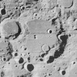 Volta crater, on the moon.